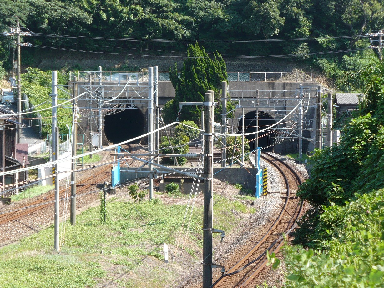 Shimonoseki side portal of Kammon railway tunnel